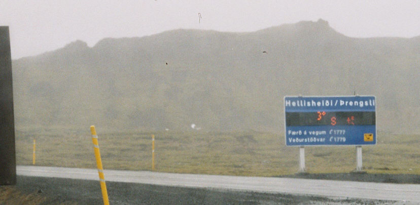 At Hellisheiði, electronic table indicating temperature and wind velocity